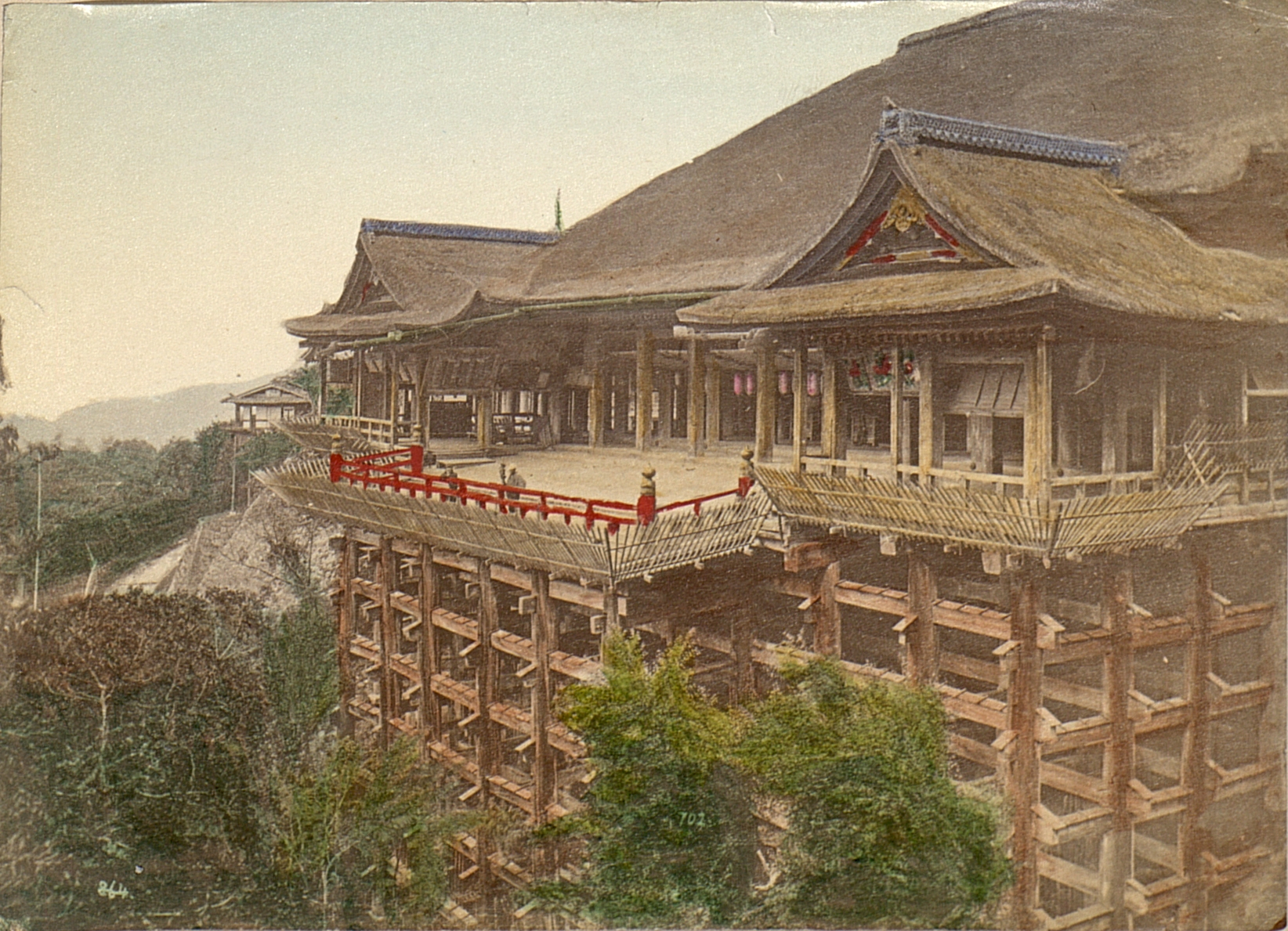 Fortified castle in the countryside. This is part of Kiyomisu in Kyoto. Image courtesy UVM Libraries' Center for Digital Initiatives :: The University of Vermont :: Burlington, VT 05405